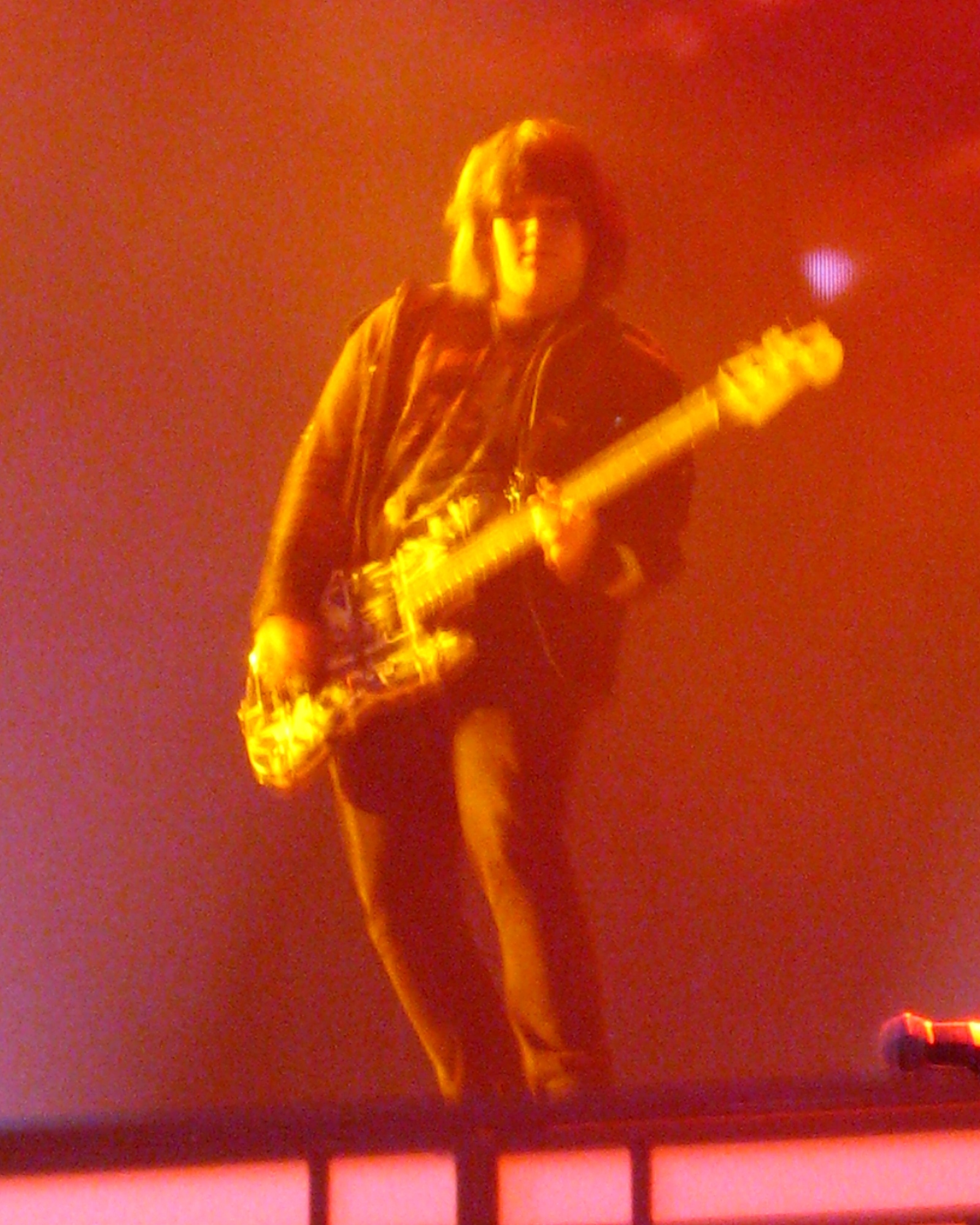 Wolfgang Van Halen. Taken at The Van Halen Tour featuring David Lee Roth (lead vocals), Eddie Van Halen (guitars), Wolfgang Van Halen (bass) and Alex Van Halen (drums). The concert was held at Bell Center, Montreal on 10th November, 2007.